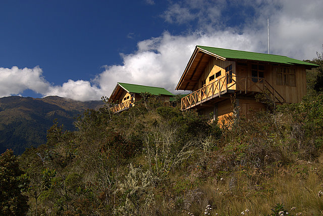 Cabins at Wayqecha Biological Station, Paucartambo Province, Cusco Region, Peru.